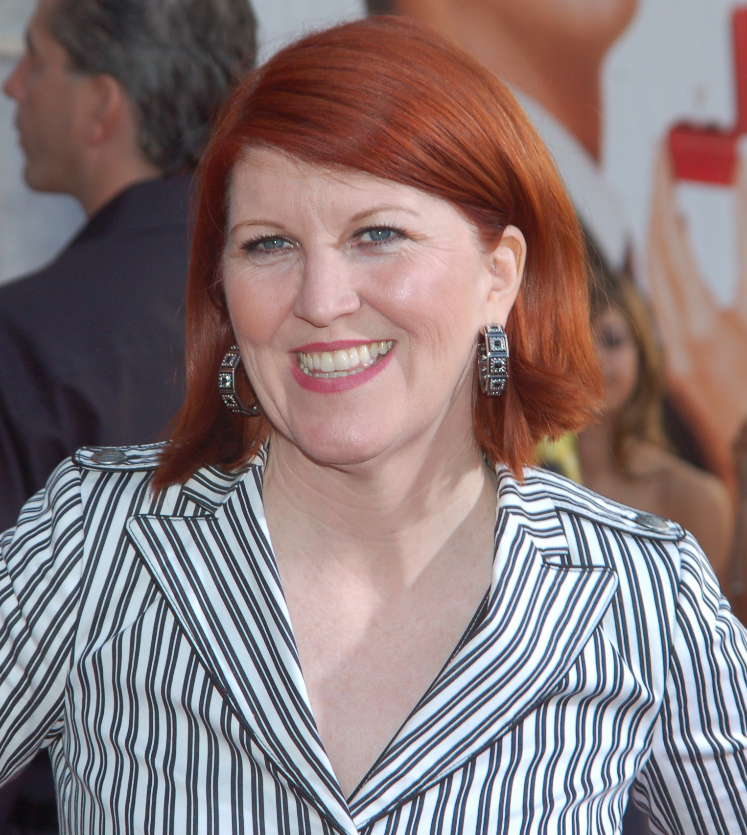 Kate Flannery at the premiere for The Proposal